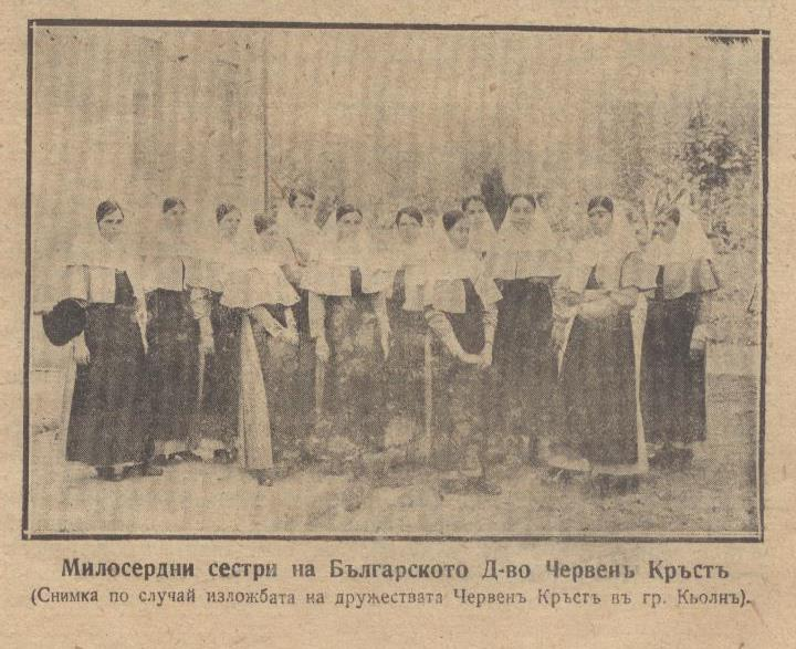 Nurses of the Bulgarian Red Cross, Picture from Red Cross exhibition in Köln, Bulletin of the Bulgarian Red Cross, year 1, vol. 39, page 657, 1916